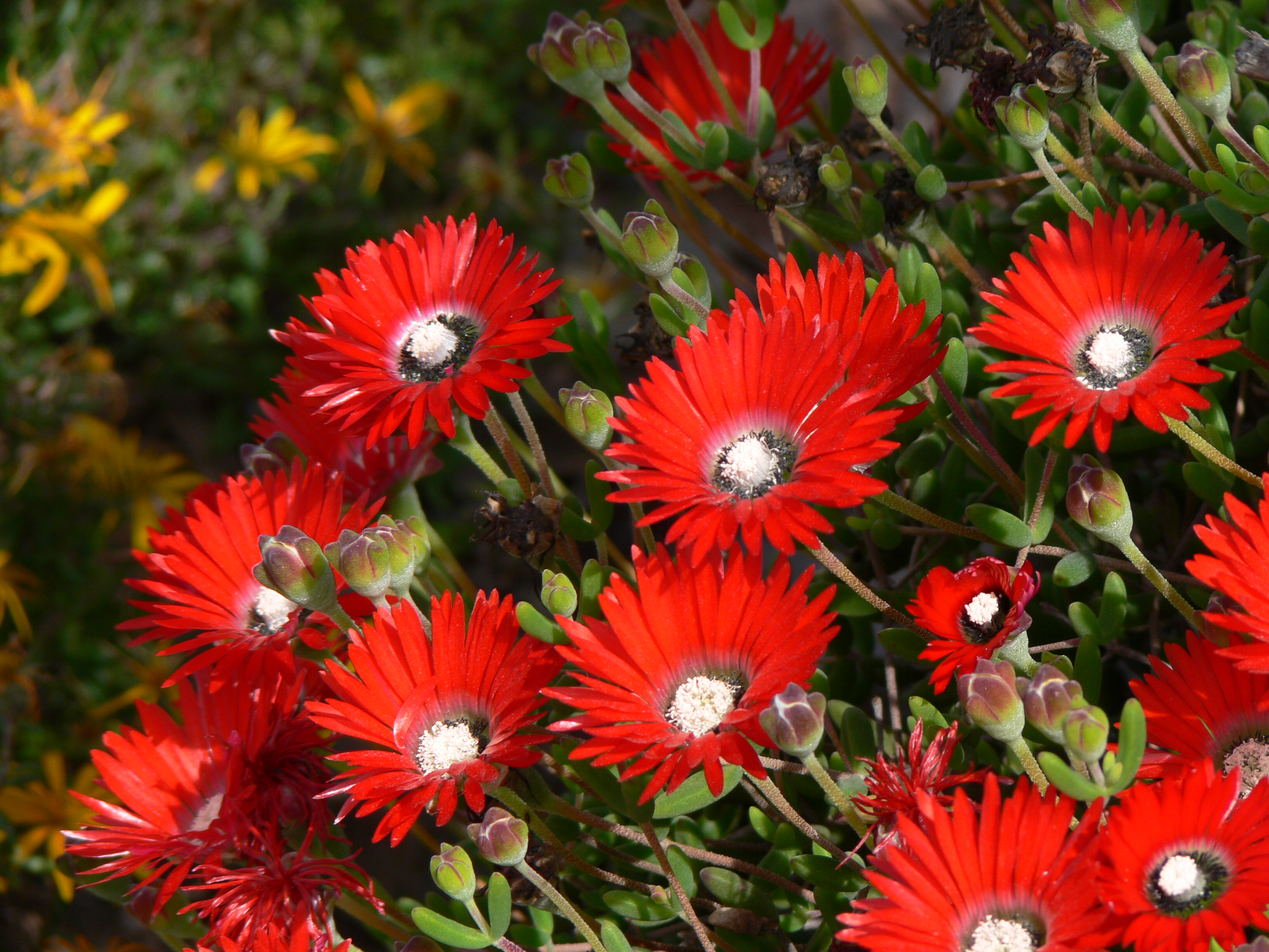 Worcester-Robertson vygie, Red ice-plant, Berg vygie (Drosanthemum speciosum (Haw.) Schwantes) beside the R60 route between Robertson and Worcester, Western Cape, South Africa